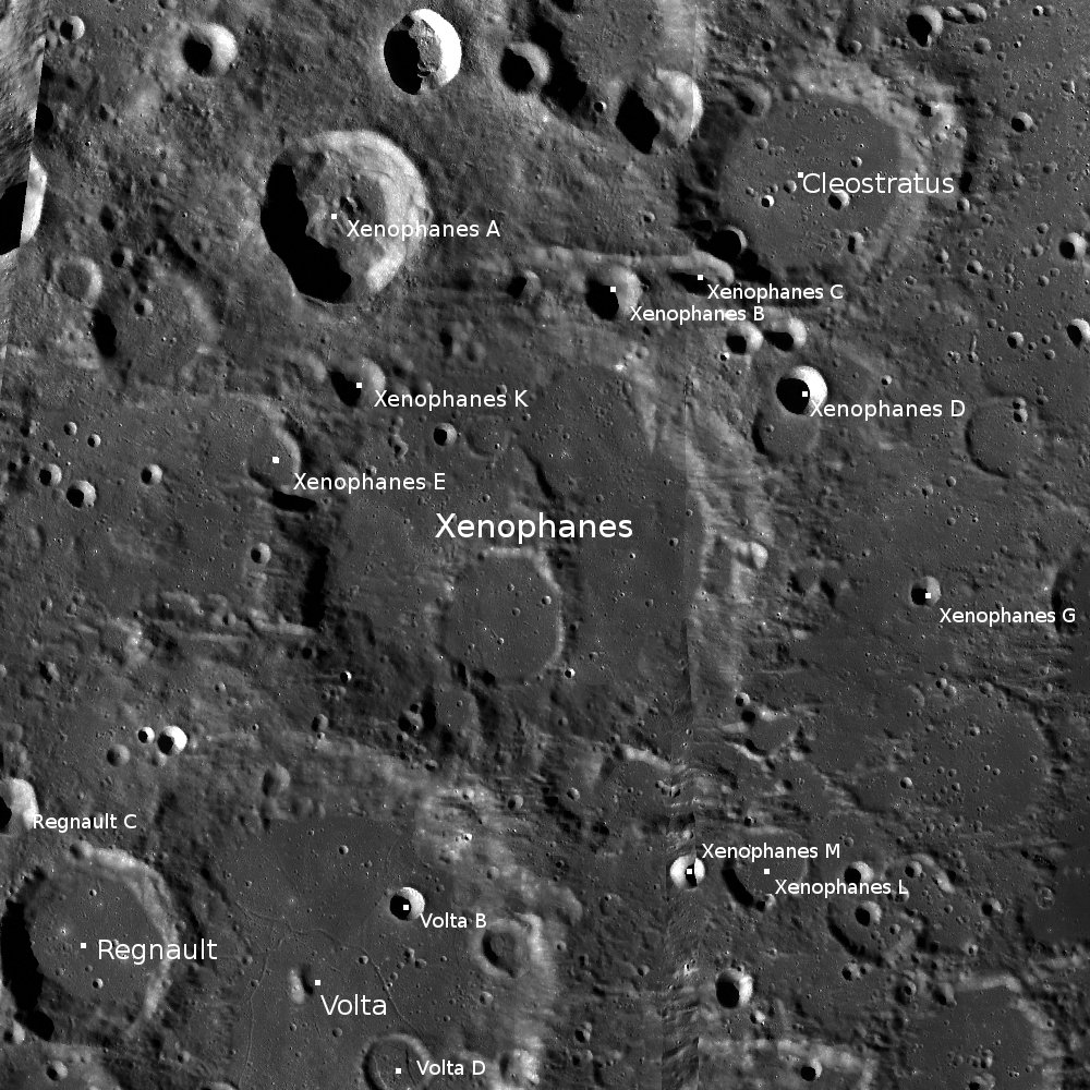 Moon craters Xenophanes and Volta with satellite features (north at top; detail of LROC - WMS image map)